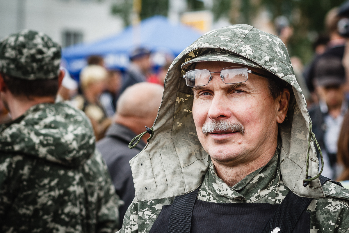 Fyodor Berezin in Donetsk